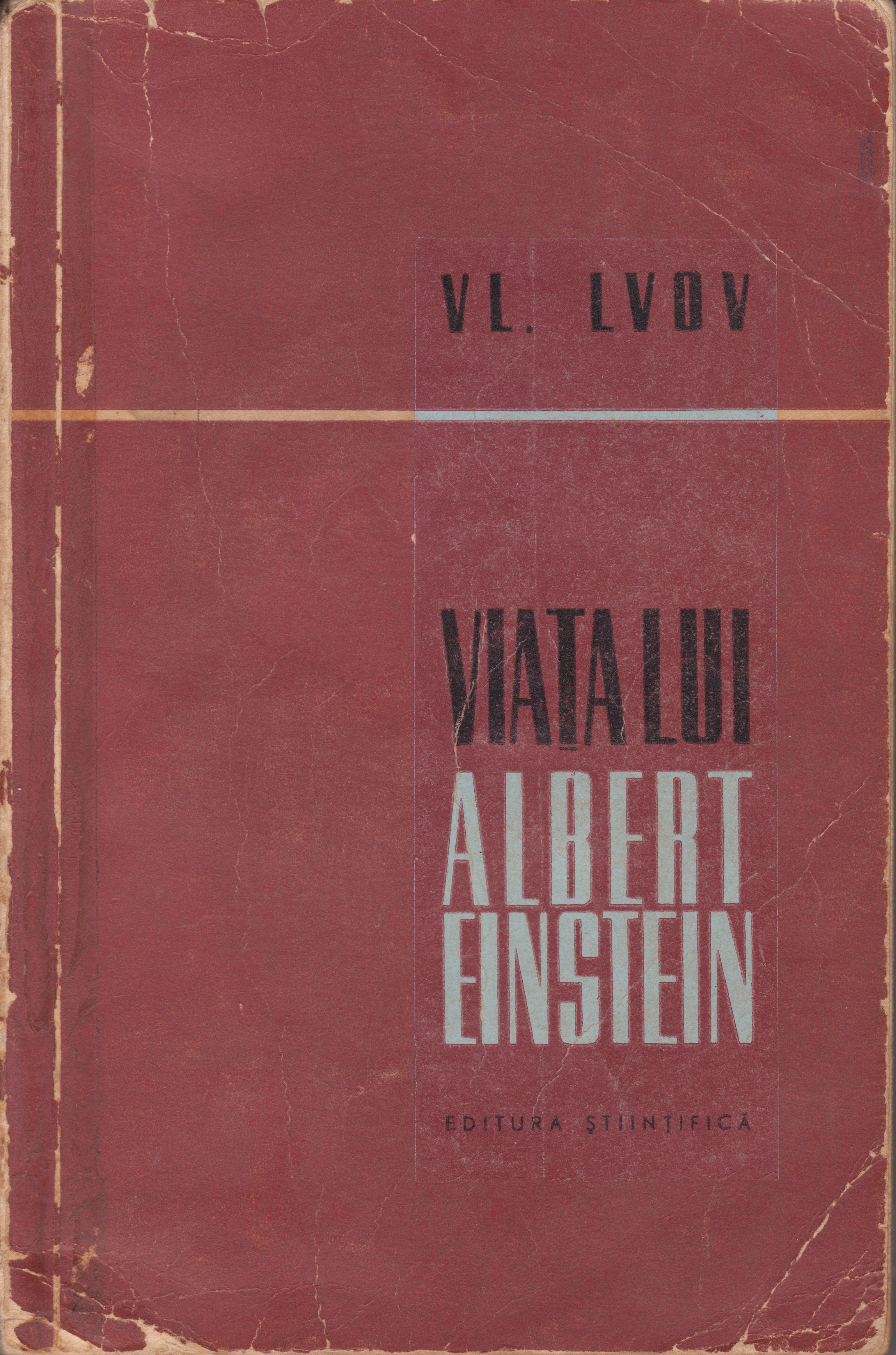 The book cover of an old Romanian book titled "Viata lui Albert Einstein" (The life of Albert Einstein). It first appeared in the Soviet Union in 1960.